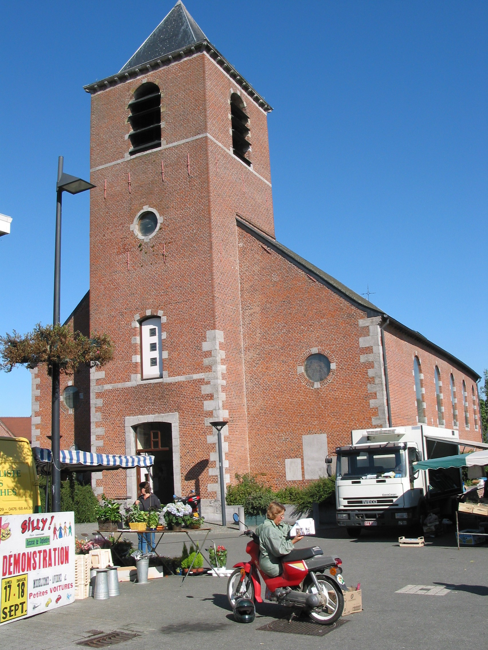 Silly (Belgium), the church of the Holly Virgin.